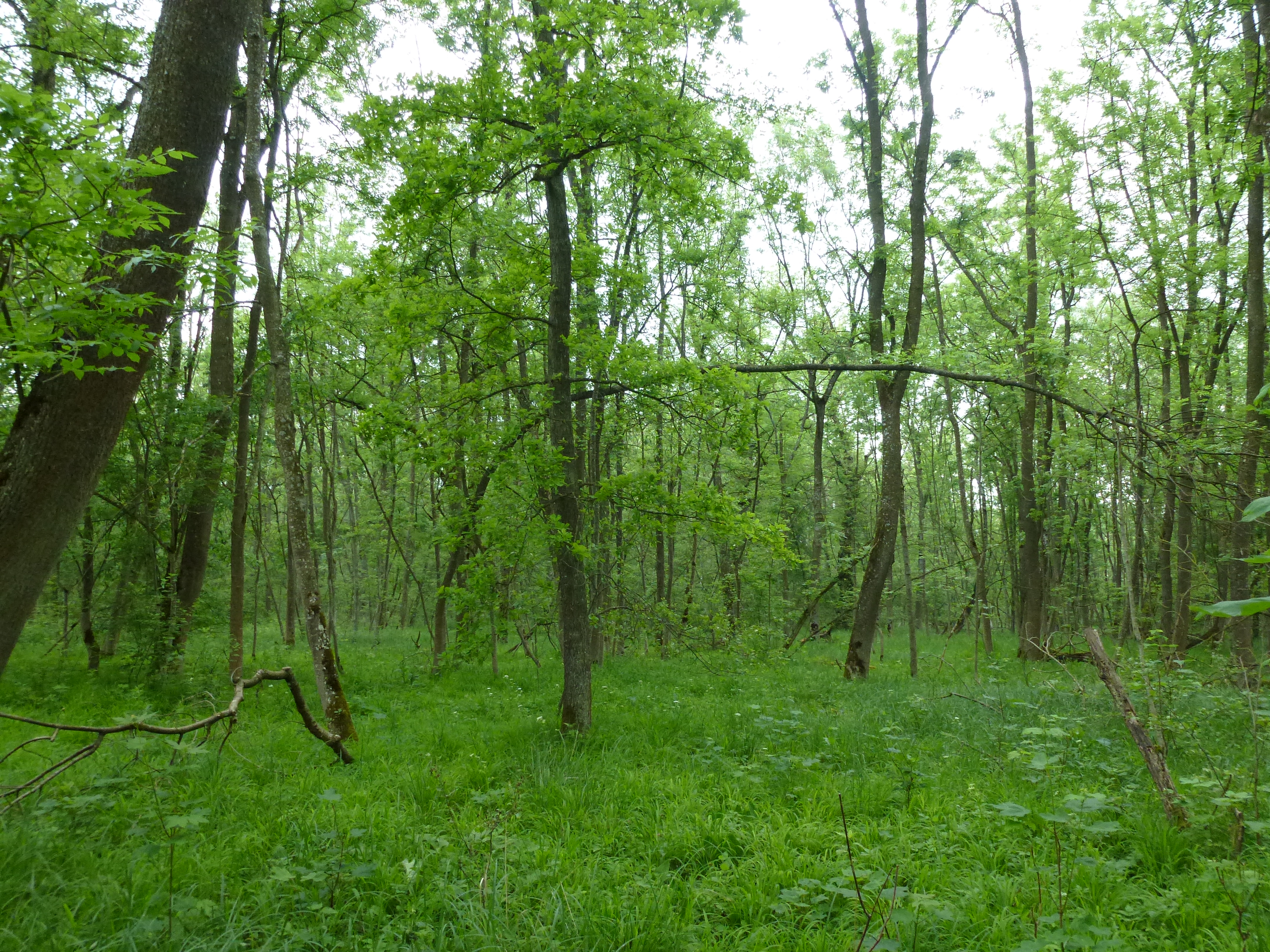 A light population of gray-alders and ash-trees, with a layer of gras and young trees underneath in the nature resvere "Neugeschüttwörth" in western Bavaria near the village Gremheim